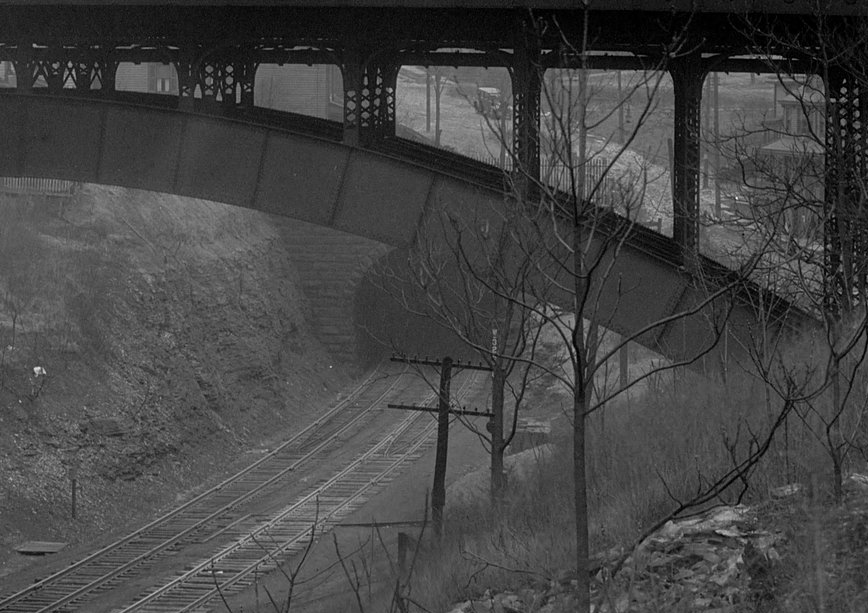 A view of the Forbes Avenue Bridge, arching over Junction Hollow and the Pittsburgh Junction Railroad, looking south. Today the bridge also crosses Boundary Street. Buildings visible in the background include St. Paul's Cathedral, Fairfax Apartments, Church of the Ascension, and an apartment building called Cathedral Mansions. Date June 23, 1914 Title Forbes Avenue Bridge Notes address Forbes Avenue Subjects Bridges--Pennsylvania--Pittsburgh Railroad tracks--Pennsylvania--Pittsburgh Church buildings--Pennsylvania--Pittsburgh Dwellings--Pennsylvania--Pittsburgh Apartment houses--Pennsylvania--Pittsburgh Forbes Avenue (Pittsburgh, Pa.) Oakland (Pittsburgh, Pa.) Related names creator Pittsburgh City Photographer depositor University of Pittsburgh